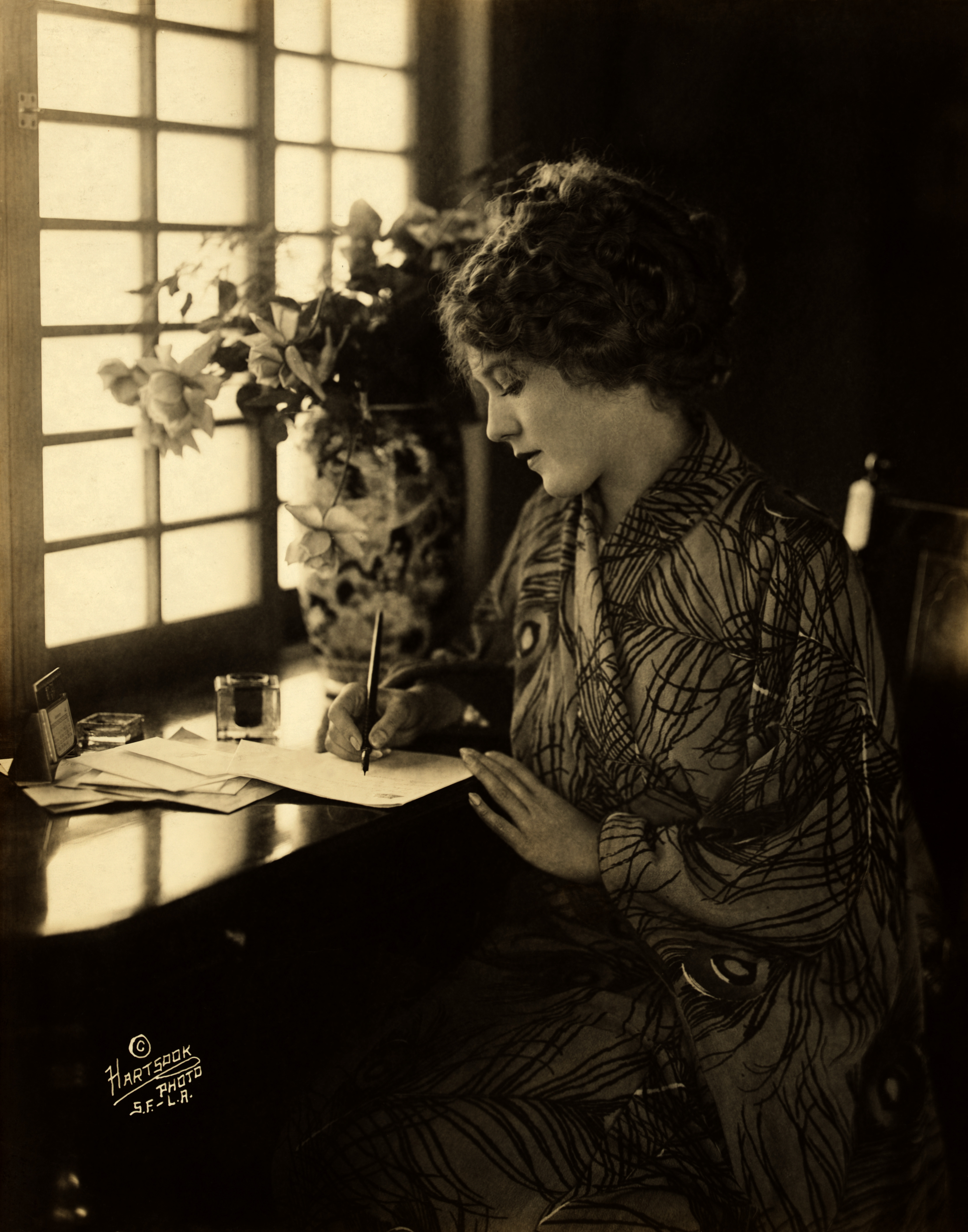 Mary Pickford, wearing a kimono, writing at a desk